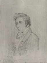 Portrait of Joseph Woods (1776–1864), English architect, botanist and geologist